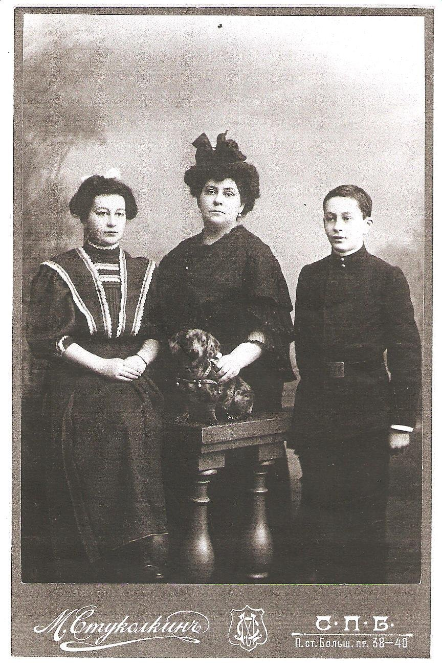 Family of russian nobleman Nikolai Vadimovich Nasackin: wife Susanna, children Ada and Shura.